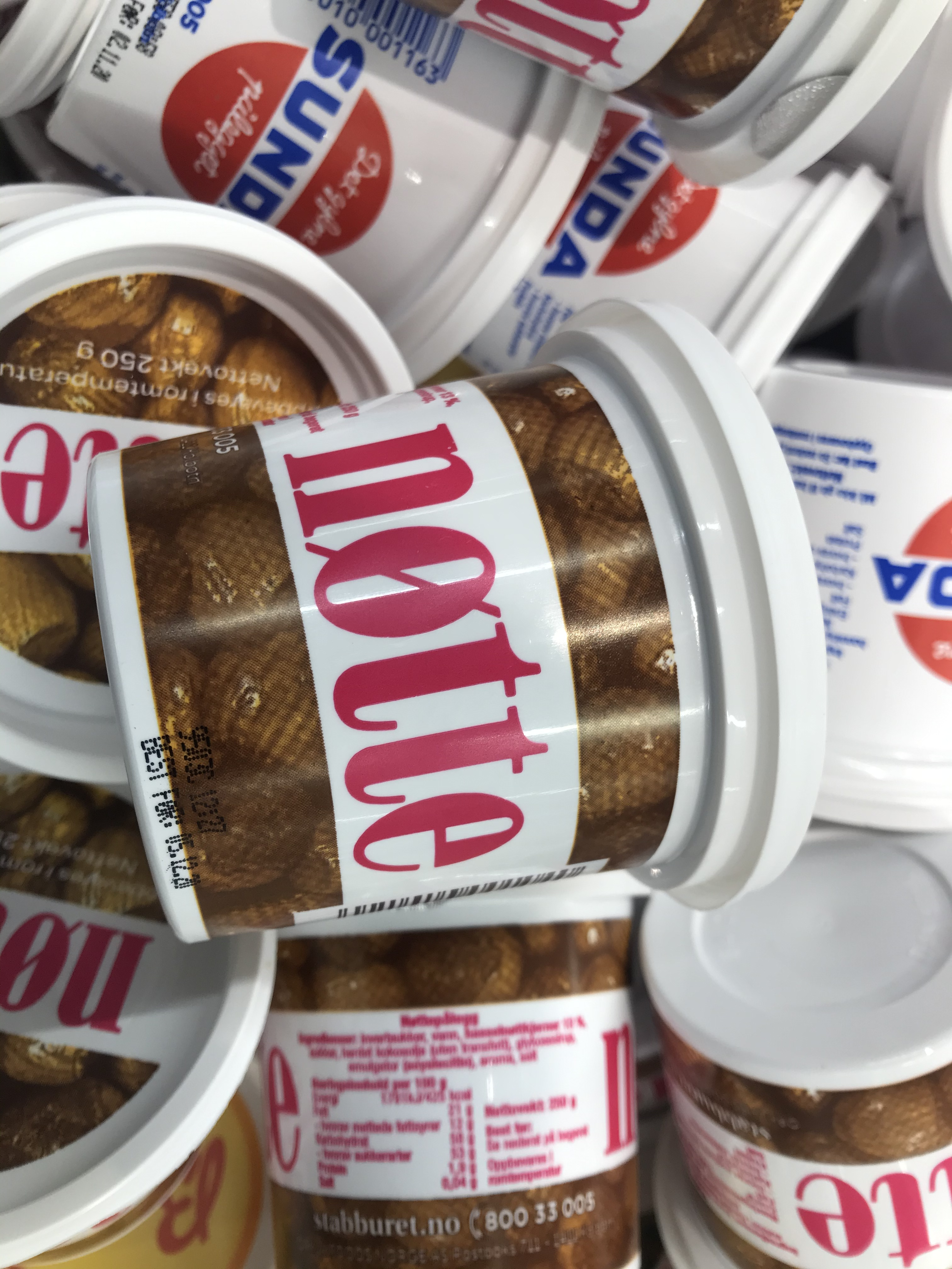 Nøttepålegg